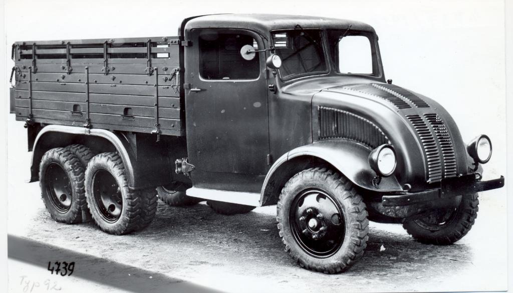 Tatra T92, early model from 1937.